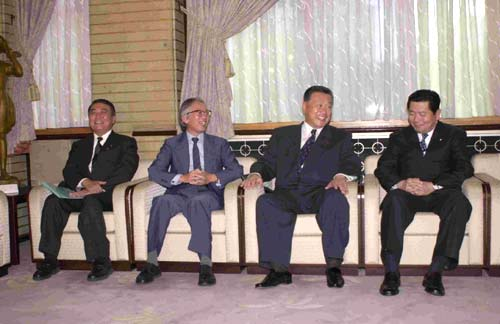 Hideki Shirakawa, Professor Emeritus of the University of Tsukuba, met Yoshirō Mori, Prime Minister, Tadamori Ōshima, Minister of Education, Science, Sports and Culture, and Hidenao Nakagawa, Chief Cabinet Secretary, at the Prime Minister's Official Residence in Chiyoda Ward, Tōkyō Metropolis on October 18, 2000.